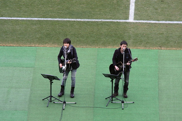 The Japanese pop duo Yuzu performing in 2012. From left to right: Yūjin Kitagawa, Kōji Iwasawa.